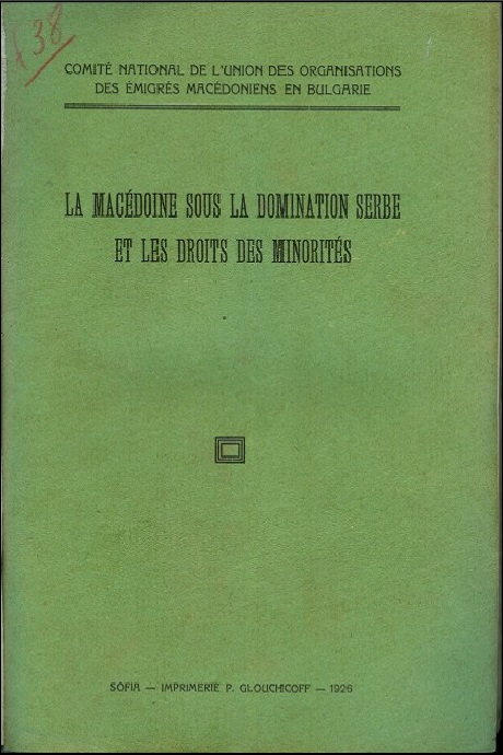 La Macédoine Sous la Domination Serbe et les Droits des Minorites